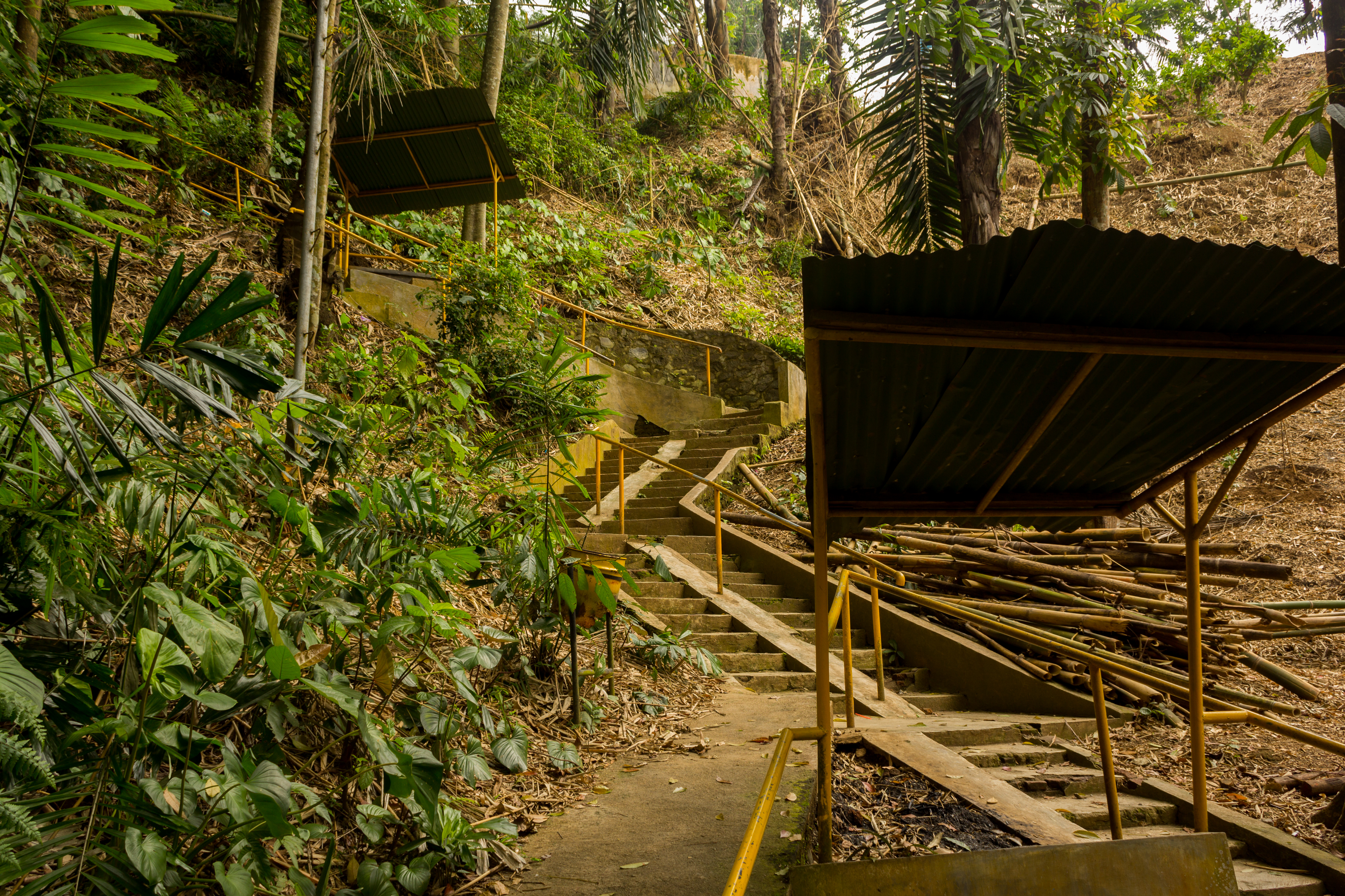 The Sukorambi Botanical Garden in Jember, East Java, Indonesia